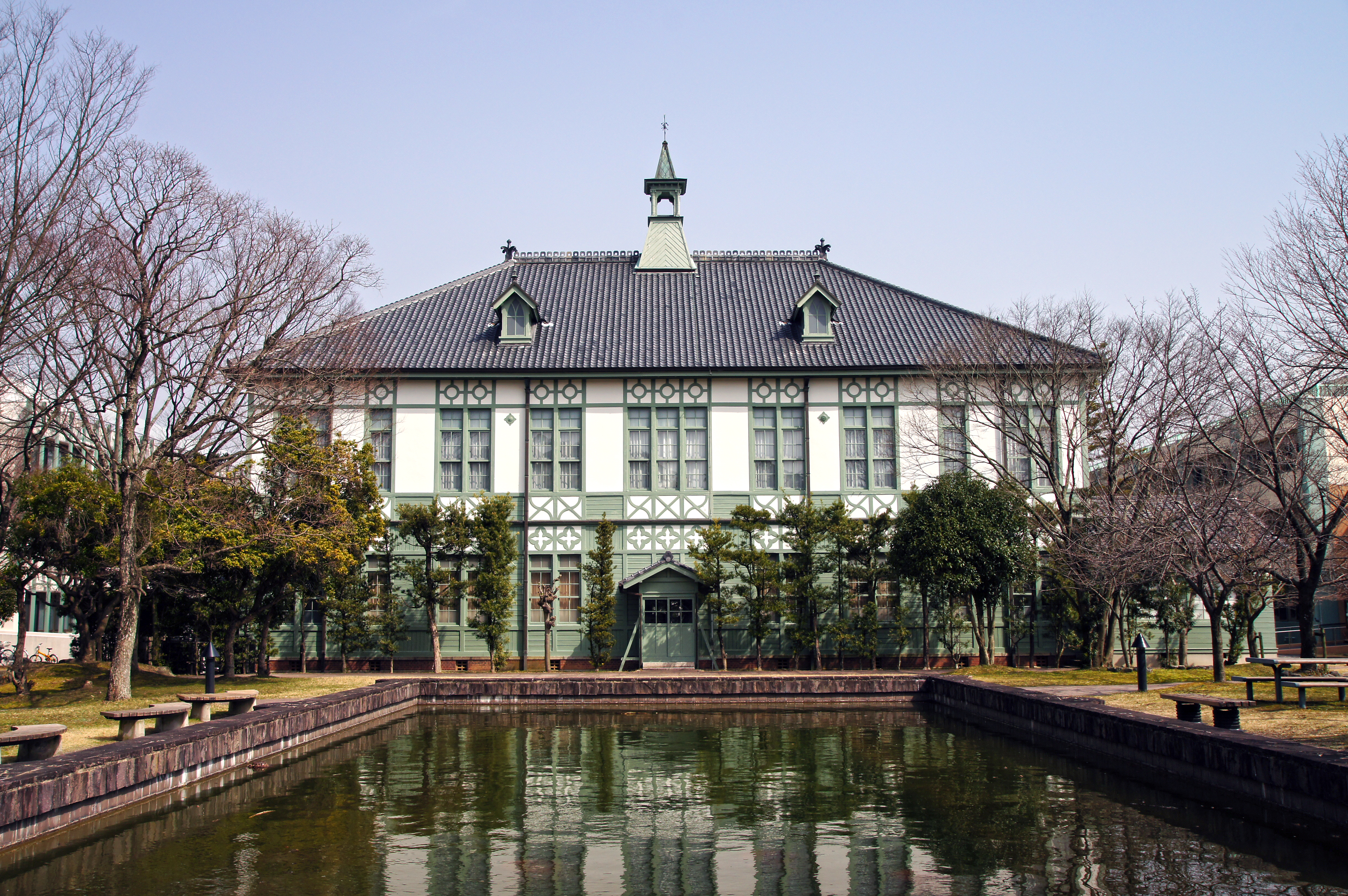 Nara Women's University in Nara, Nara prefecture, Japan.